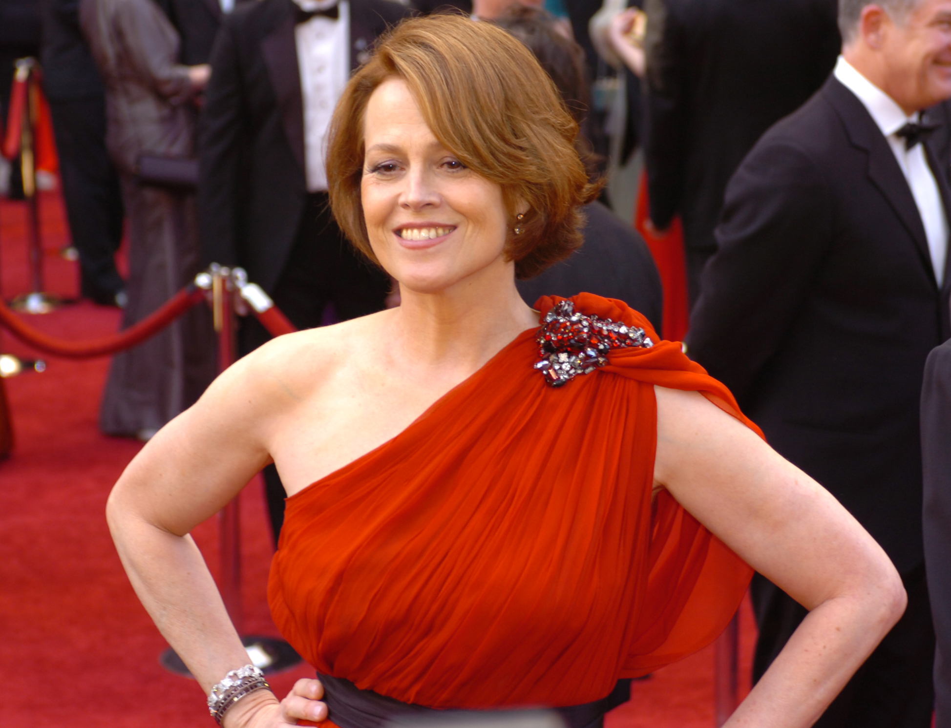 The red carpet isn't alien to her. Playing off "Avatar's" vibrancy, Sigourney Weaver confidently shows some color at the 82nd Academy Awards, March 7, in Hollywood, Calif. She plays Dr. Grace Augustine in the film.